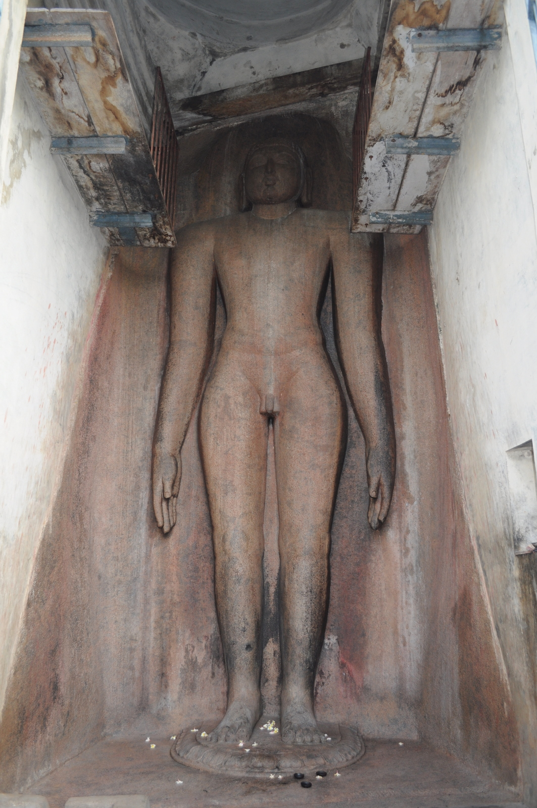 View of the 16 meter high Neminatha statue at Tirumalai, the tallest Jain image in Tamil Nadu. Tirumalai, near Polur, Tamil Nadu, India.